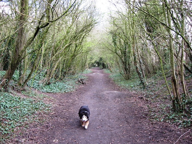 The Disused Railway Line from Wendover to Halton The railway line from Wendover to Halton was a narrow gauge line built by German prisoners of war in 1917 to transport goods from the Main Line to the RAF Camp.